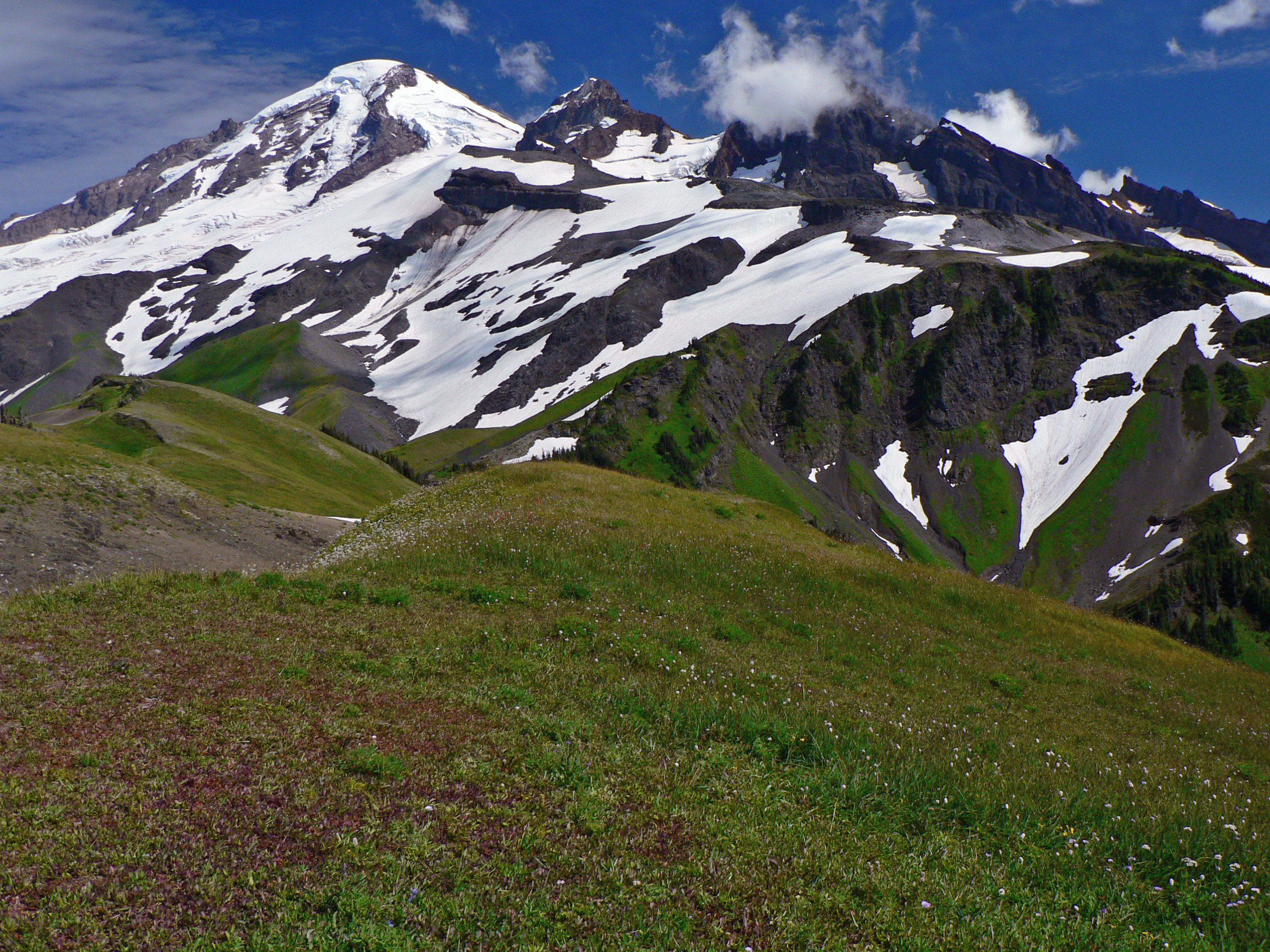 Mount Baker; Grant Peak (10,781 feet, 3286 meters, left center); Colfax Peak (9440 ft, 2877 m, center); Lincoln Peak (9080 ft, 2768 m, in cloud); Seward Peak (8000 ft, 2438 m, right)